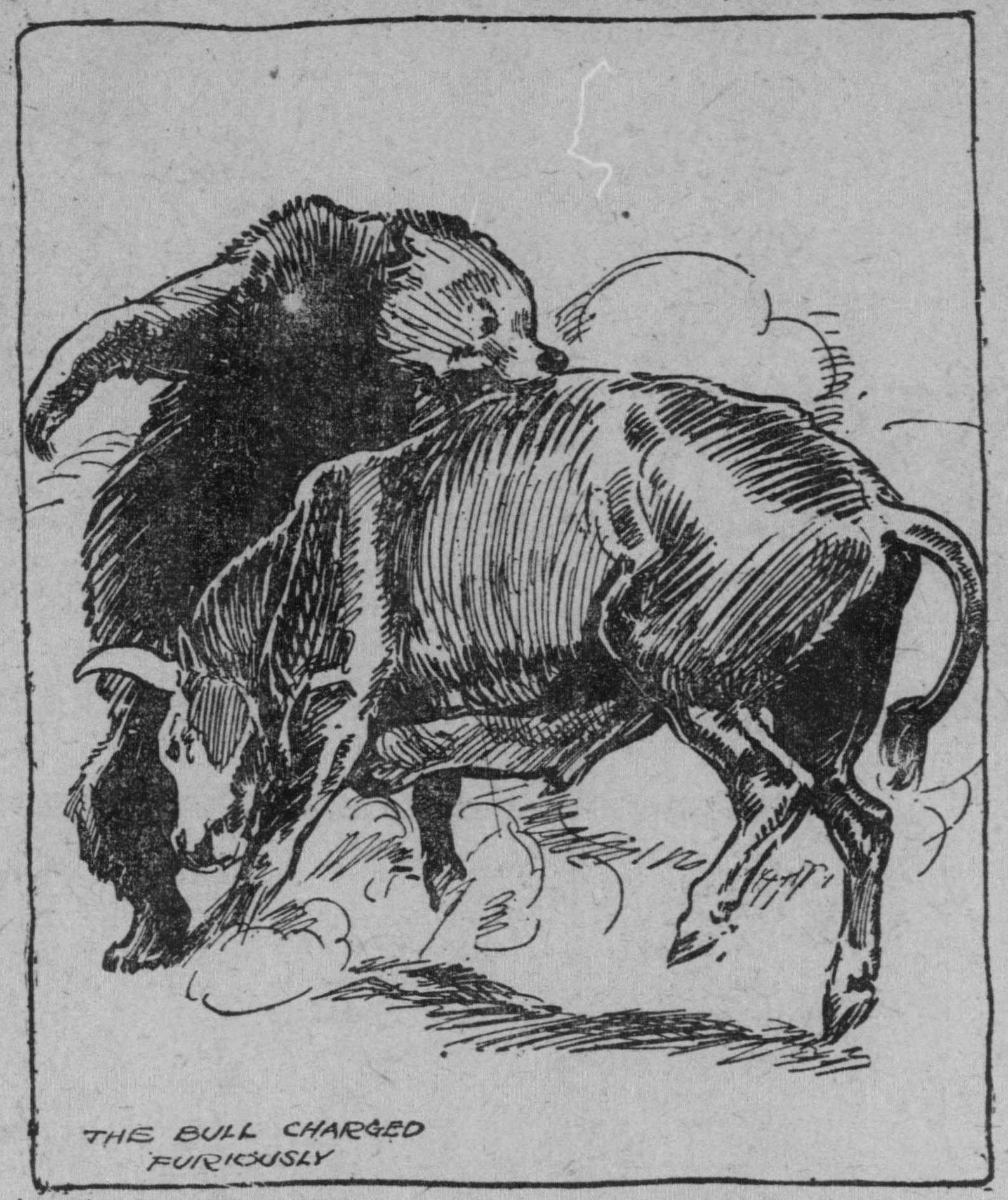 A stylised illustration “THE BULL CHARGED FURIOUSLY” seemingly by HM Stoops. One of two illustrations for the story “THE SPORT OF ROPING GRIZZLES IN CALIFORNIA’S EARLY DAYS” on page 14 of the newspaper The San Francisco Call published on January 15, 1911.